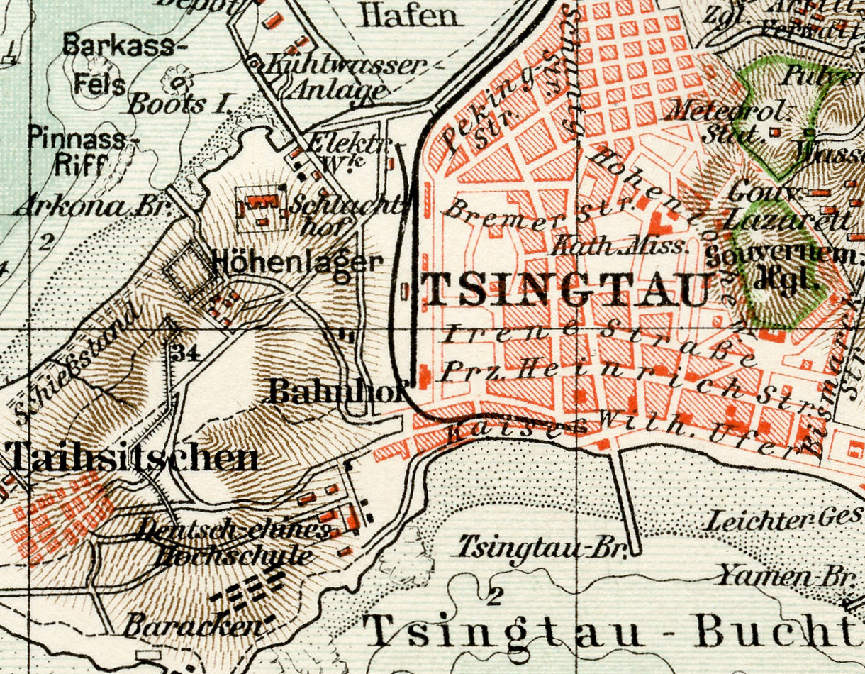 City of Tsingtau and Tsingtau Bay in the Kiautschou area, China (around 1912)